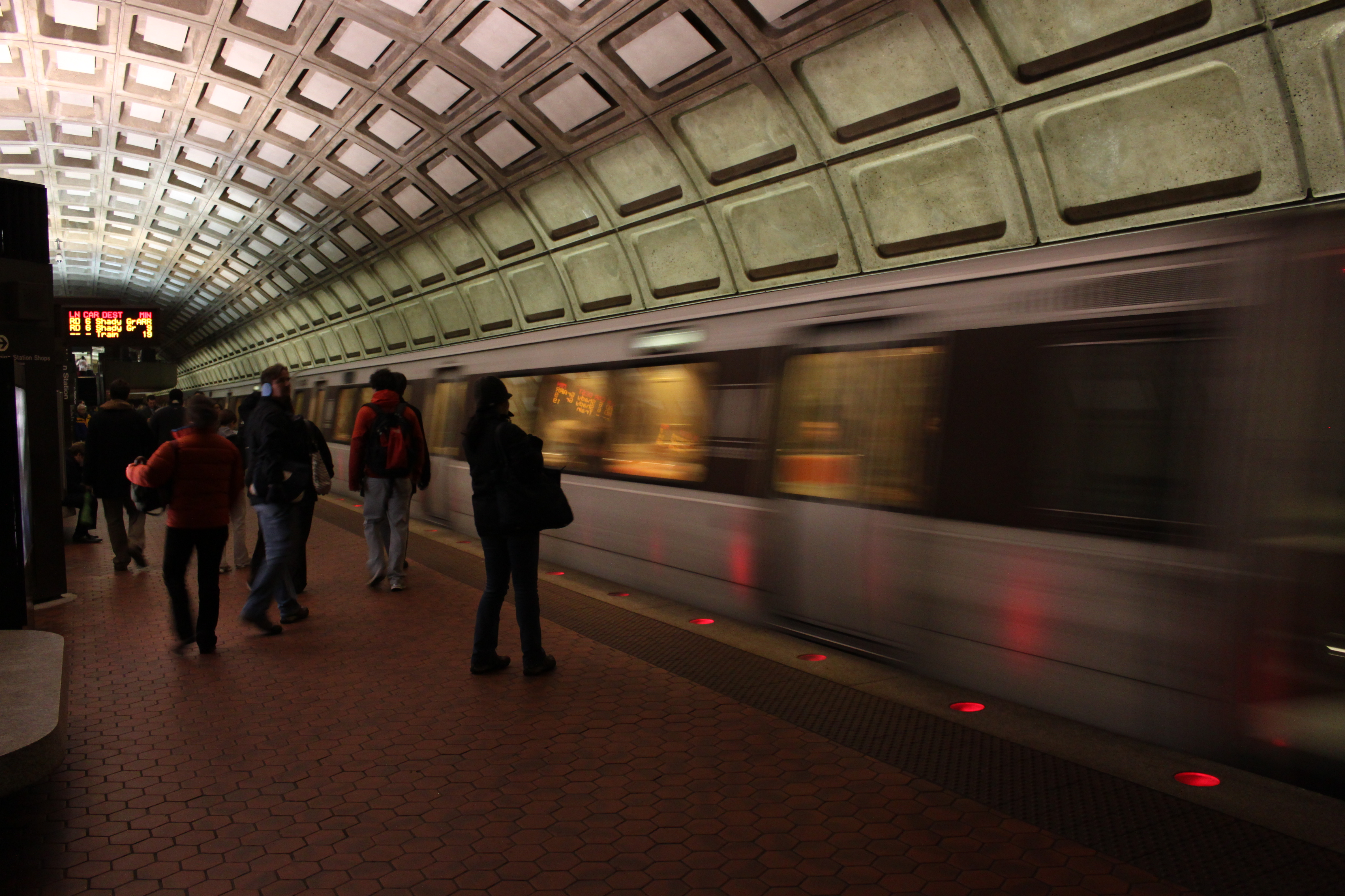 The subway stop for Washington Union Station on the Washington Metro.